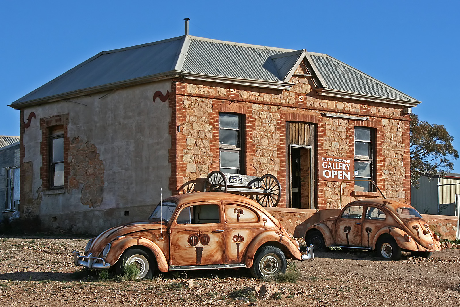 The Peter Browne Gallery in Silverton, NSW. This is an artist run gallery set up in a previously deserted ruin that has been renovated for this purpose.